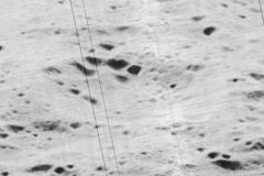 Oblique view of Langevin, on the far side of the moon, facing west.